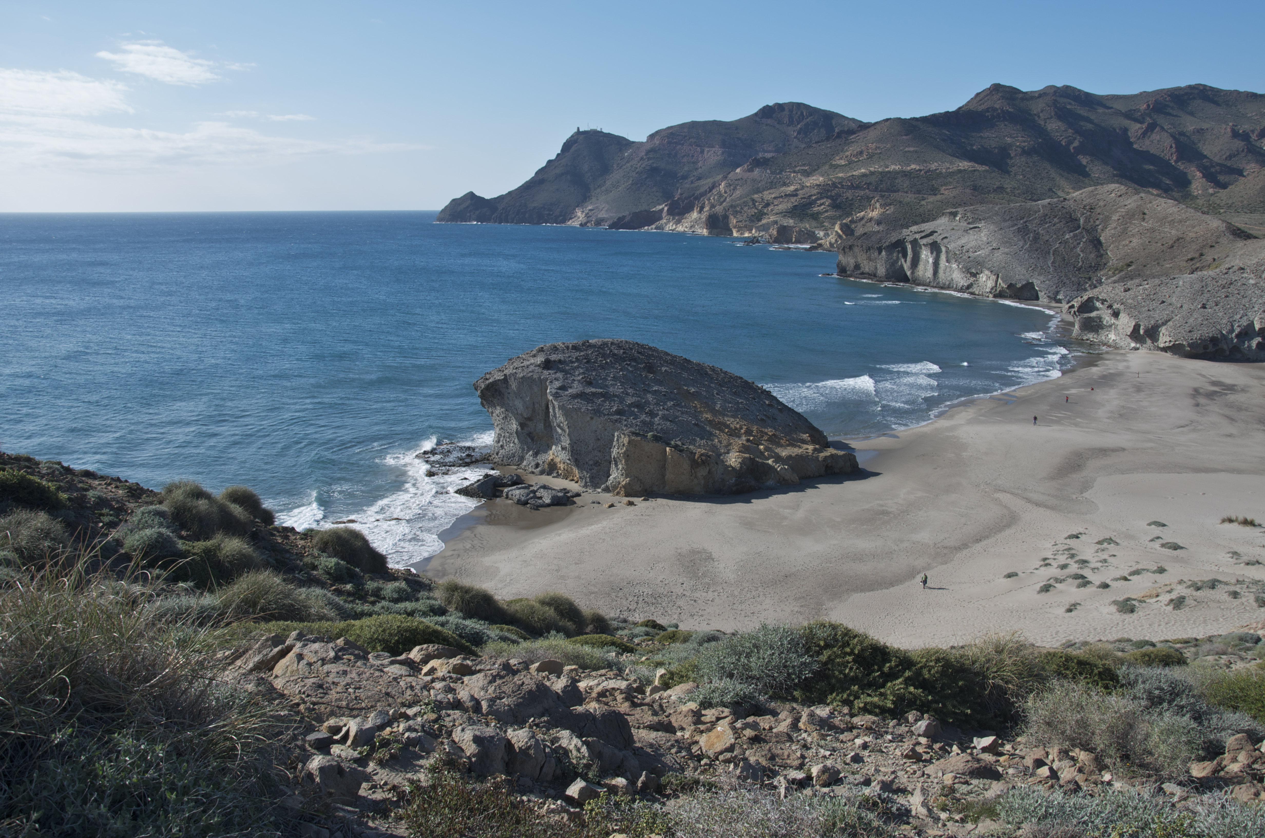 The "petrified wave" and other volcanic formations of Playa de Mónsul, a landmark of Parque Natural de Cabo de Gata, and one of its defining beaches. Cabo de Gata-Níjar Natural Park, in high resolution, including volcanic formations such as the "petrified wave"